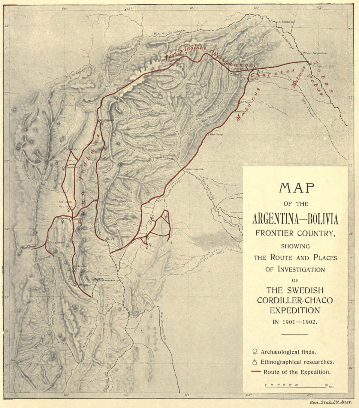 Map of the Argentina-Bolivia frontier country showing the route and places of investigation of the Swedish Cordiller-Chaco Expedition 1901-1902.